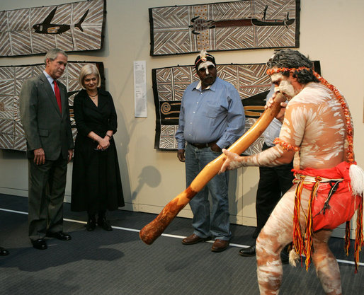 President George W. Bush enjoys a performance of Aboriginal song and dance during a visit Thursday, Sept. 6, 2007, to the Australian National Maritime Museum in Sydney.